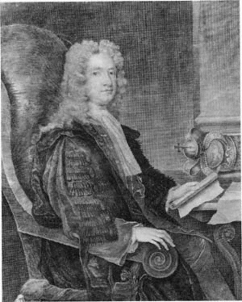 William Conolly (1662-1729)